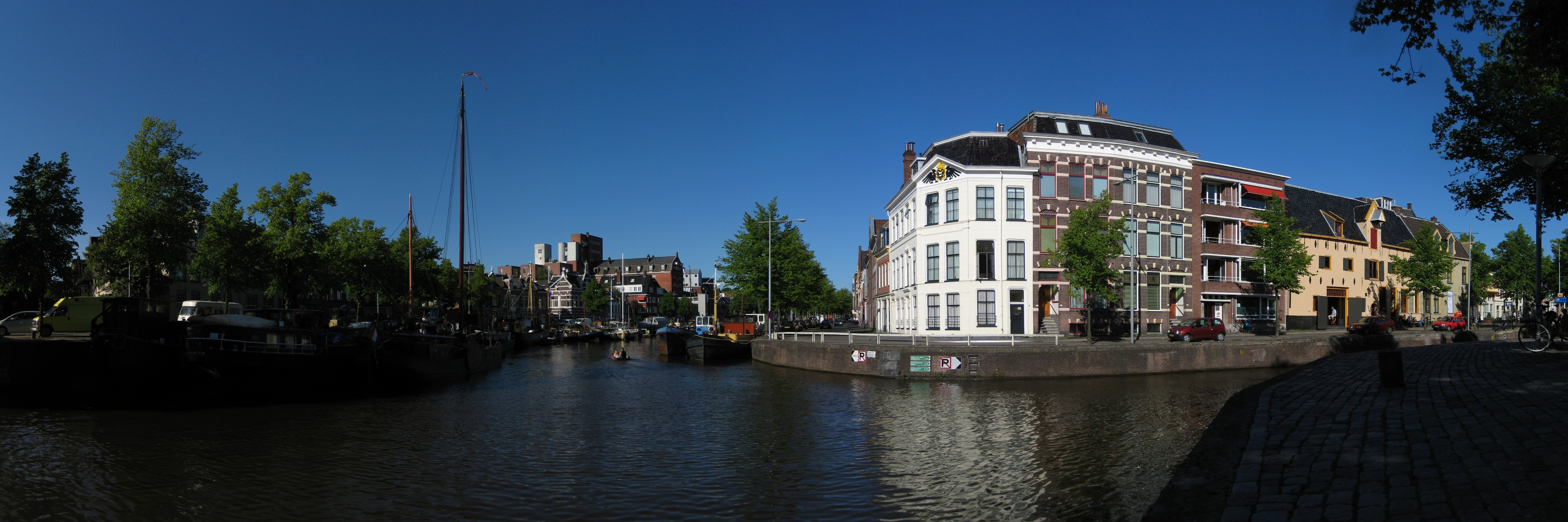 De Hoek van Ameland in the Dutch city of Groningen.